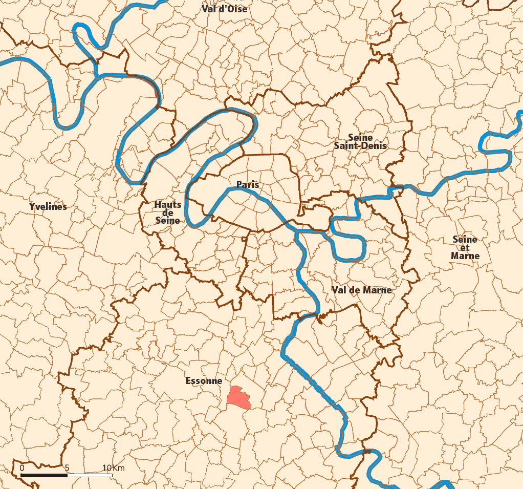 Created map myself.